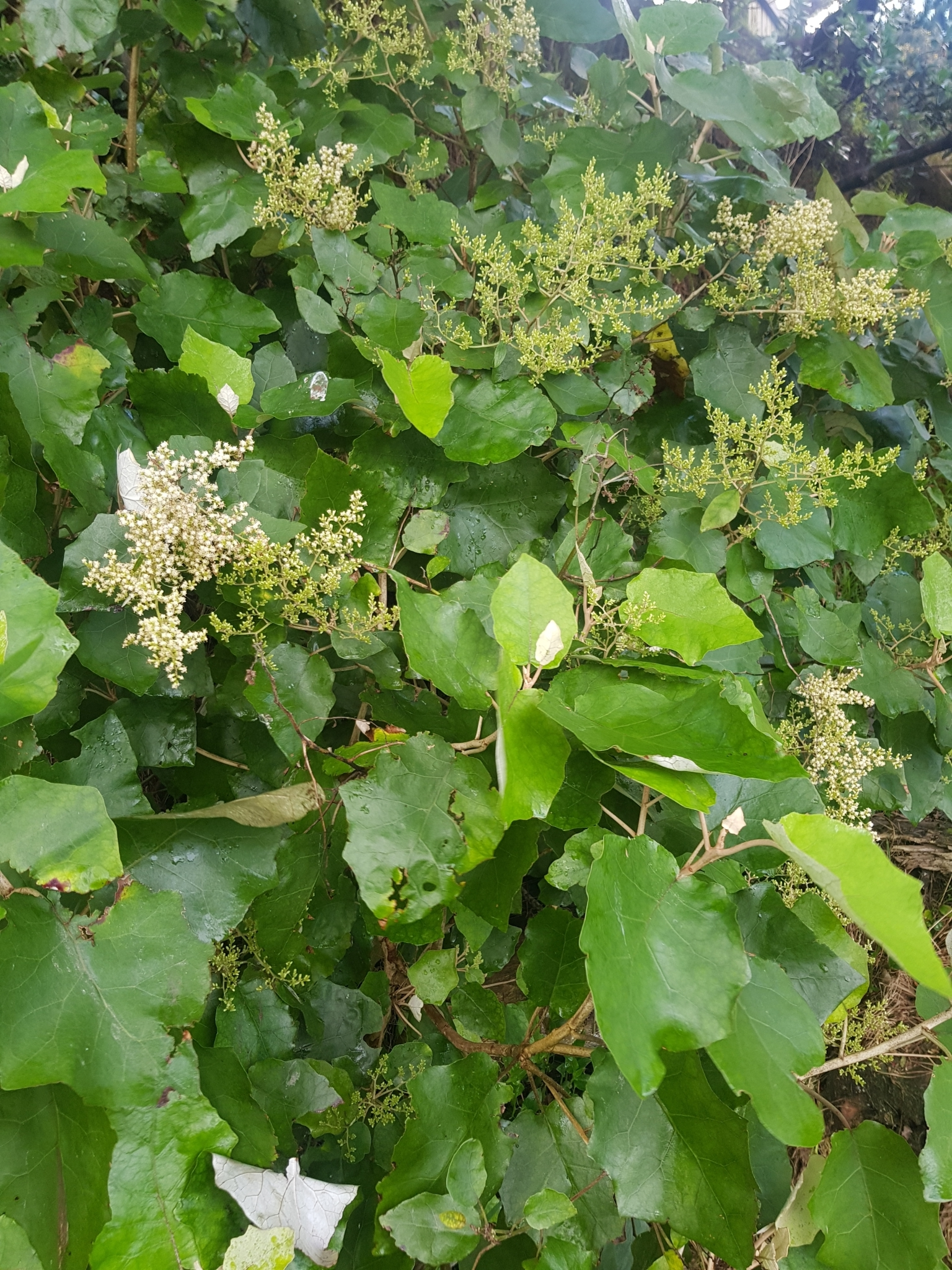 Brachyglottis repanda (Q4953449) by Siobhan Leachman (Q54823671) via iNaturalist